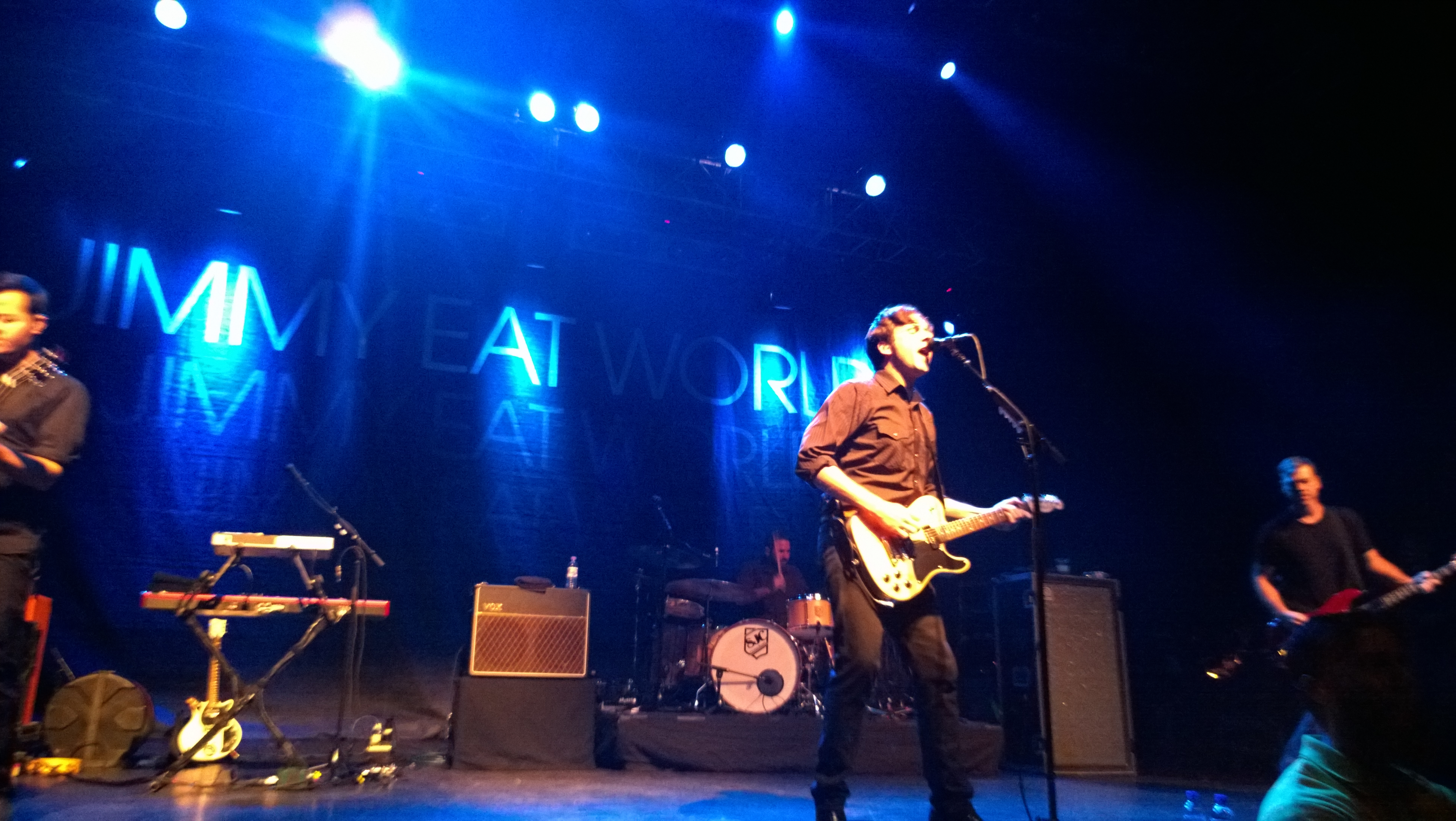 Jimmy Eat World, Kentish Town Forum, London